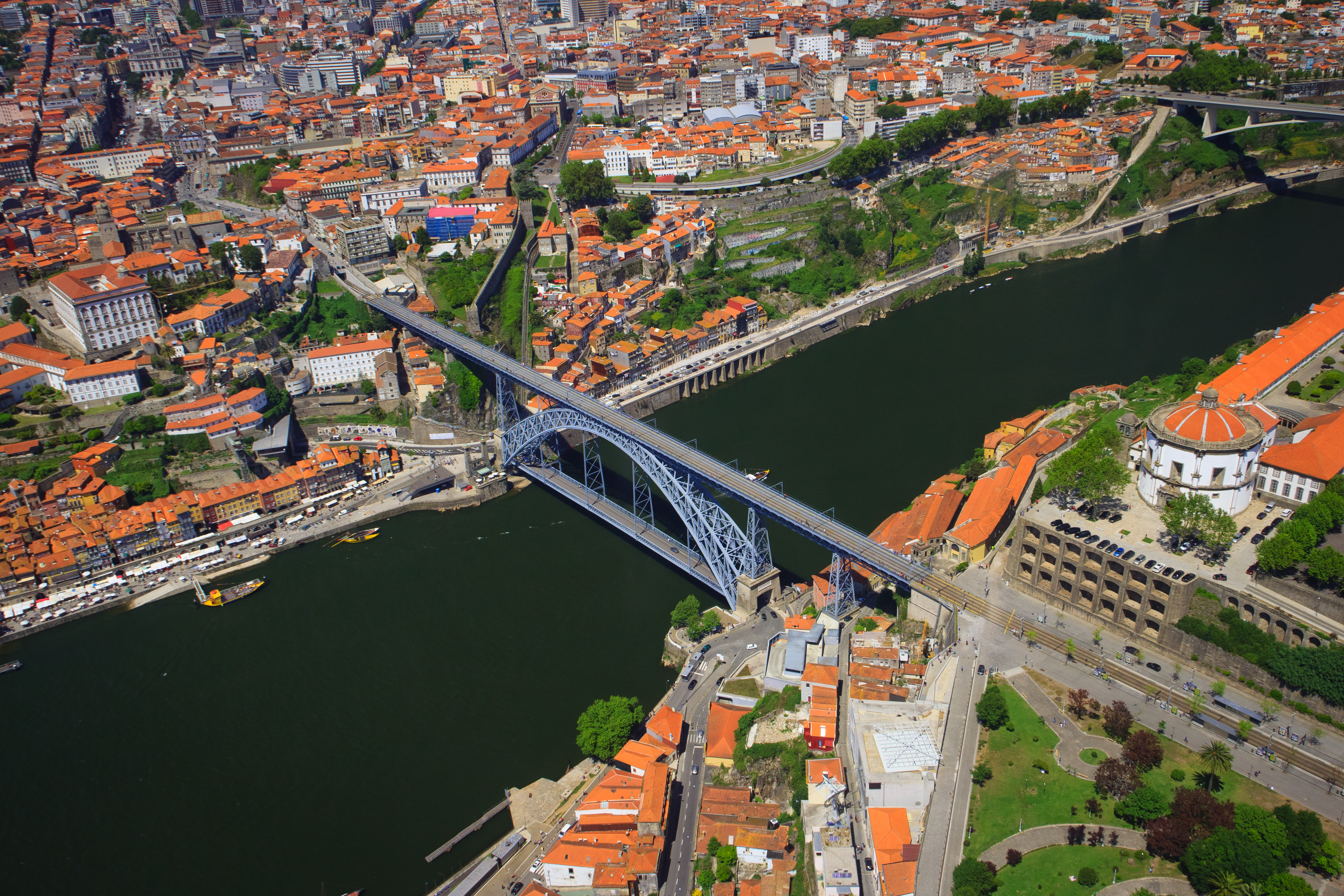 Aerial view of the Dom Luís I bridge